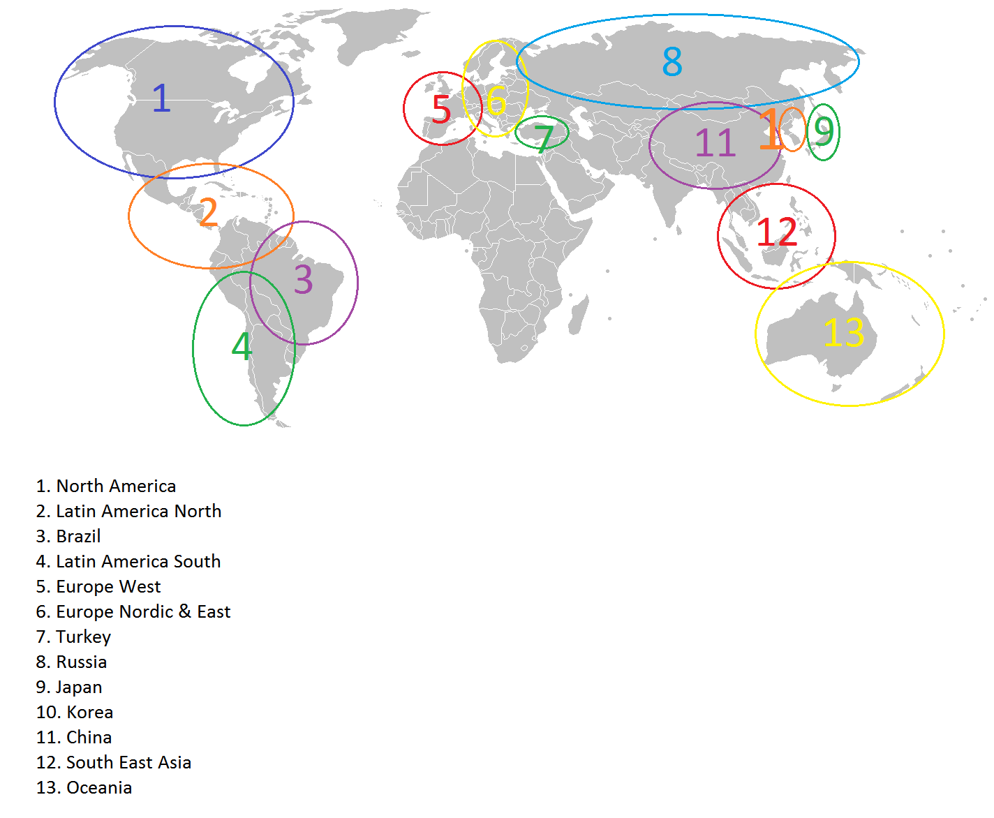 League of Legends servers/regions map